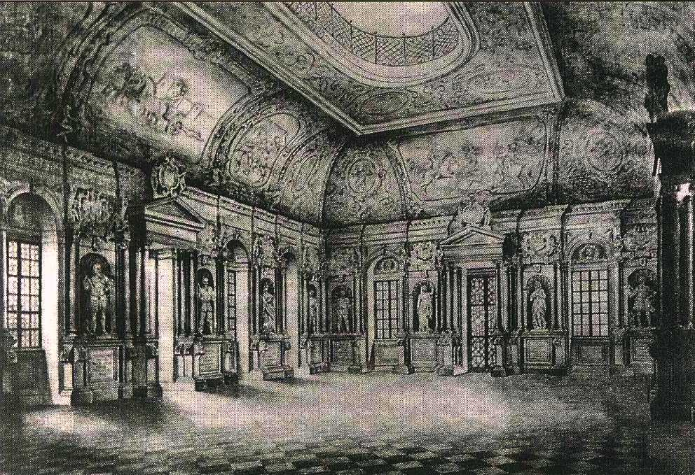 Erstes Belvedere